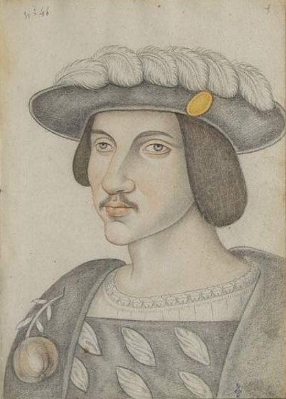 Portrait of Philibert of Chalon, Prince of Orange